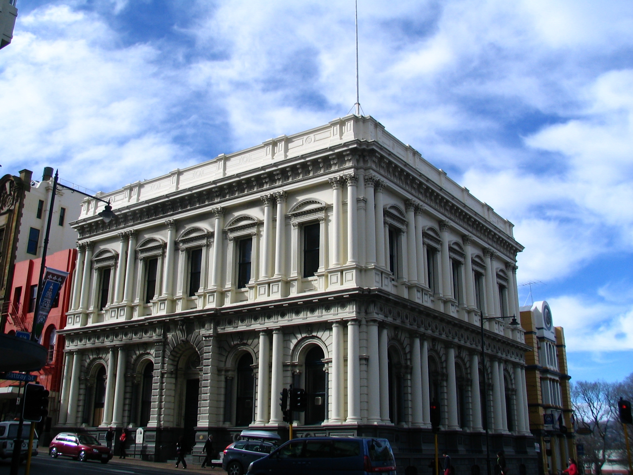 Former Bank of New Zealand Building, 205 Princes St, Dunedin, New Zealand. New Zealand Historic Places Trust Register number: 7299